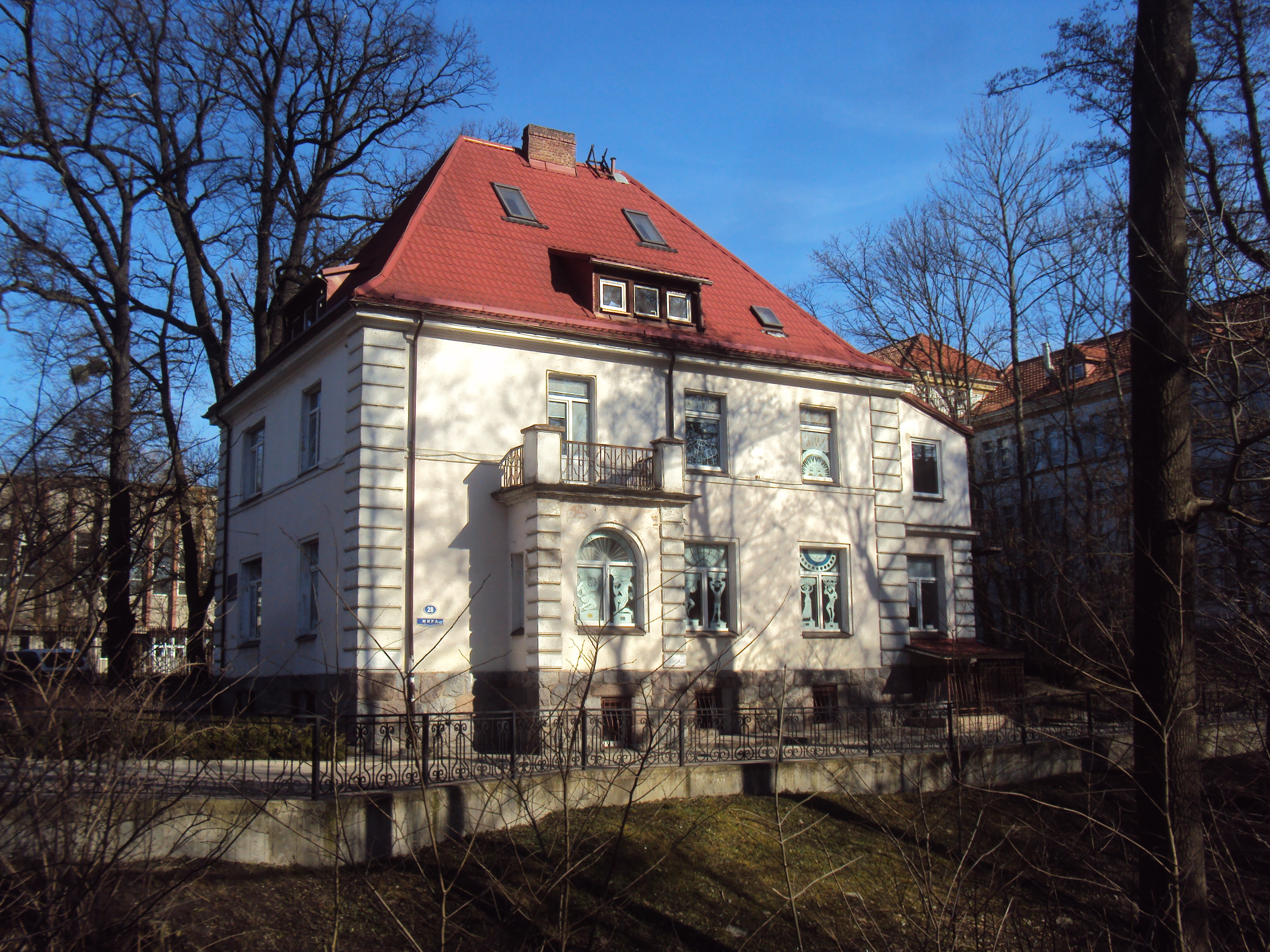 House Director Hufengymnasium